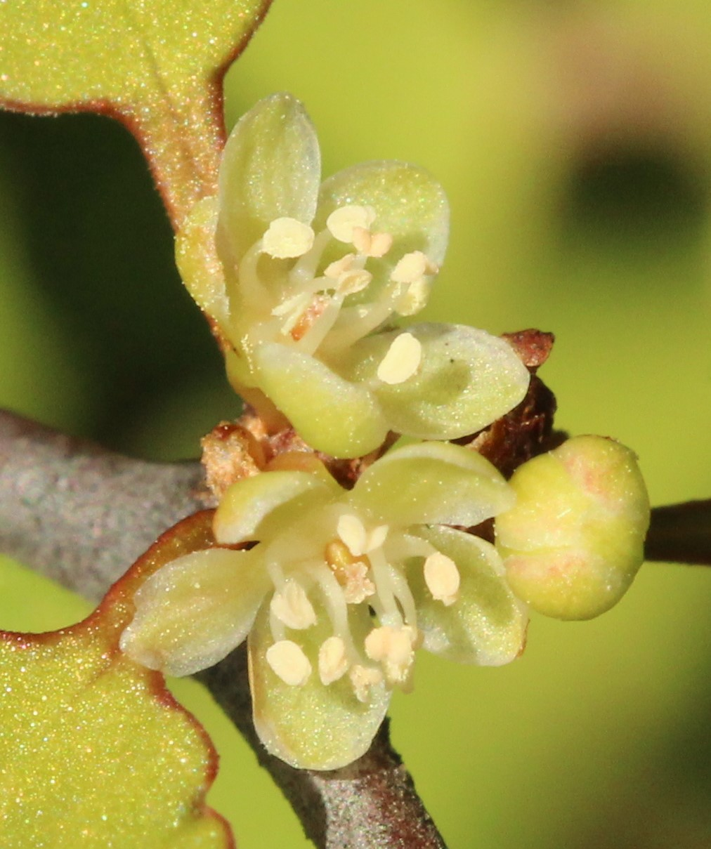 These flowers are about 3mm across